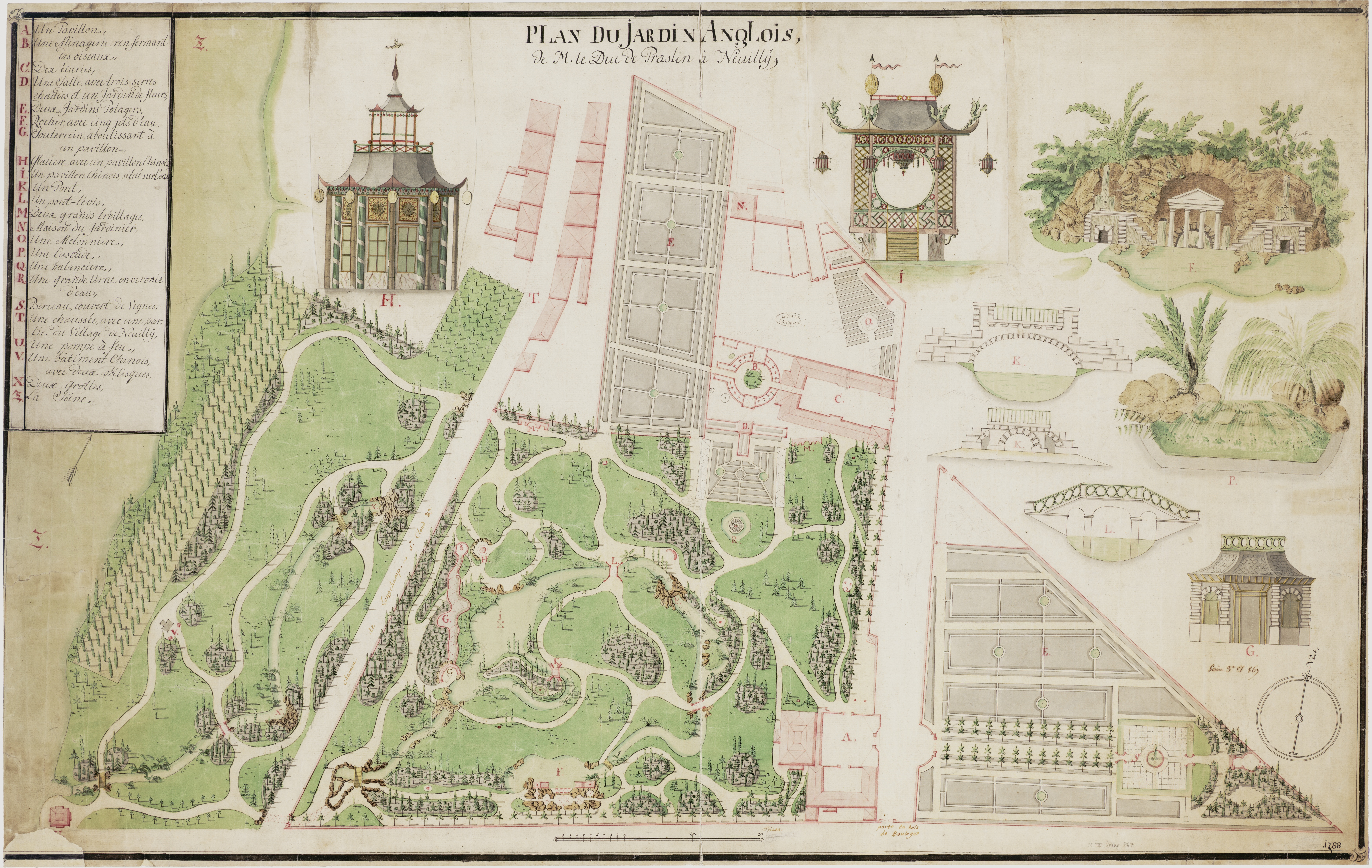 Map of the garden of the Folie Saint-James in Neuilly, 1788